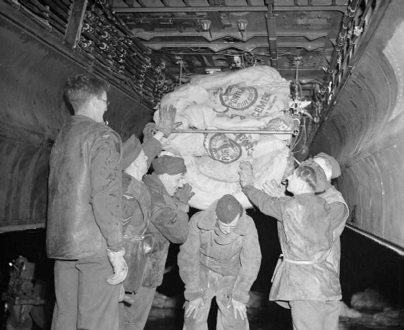 IWM caption : Ground crew of No 514 Squadron at Waterbeach load cement bags full of foodstuffs into the bomb bay of a Lancaster, 29 April 1945. The food would be dropped to the starving Dutch in those parts of Holland still occupied by the Germans, as part of Operation 'Manna'.